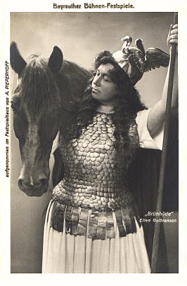 Ellen Gulbranson, norwegian opera singer as Brunhilde